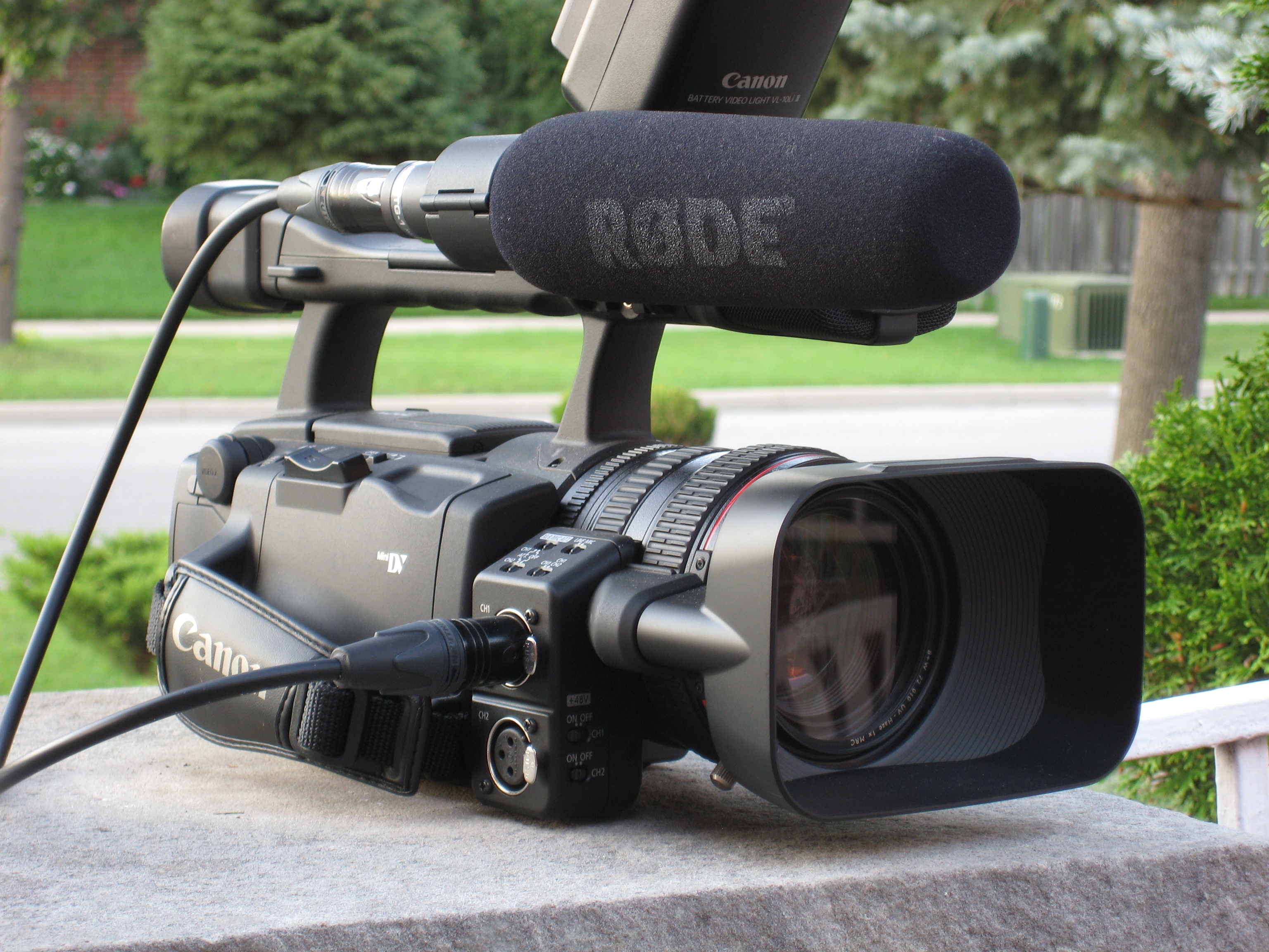 Canon XH-A1 showing a professional RODE shotgun microphone typical for ENG applications.